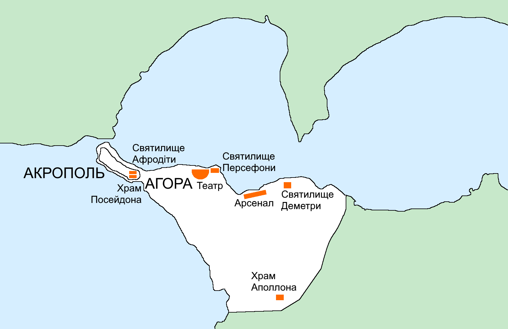 Map of Tarentum in the Classical Time